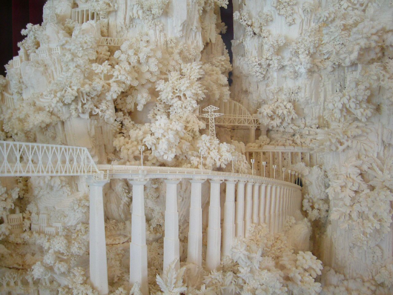 This ivory carving is a gift from China presented to the United Nations in 1974. It depicts the Chengtu-Kunming railway, which was opened to traffic in 1970 and covers a distance of over 1,000 kilometers. The railway connects two Chinese provinces, Yunnan Province in the South and Szechuan Province in the North. The sculpture was carved from eight elephant tusks, and it is said that 98 people worked on it for more than two years. It is amazing for its detail - it is possible to see even tiny people carved inside the train.